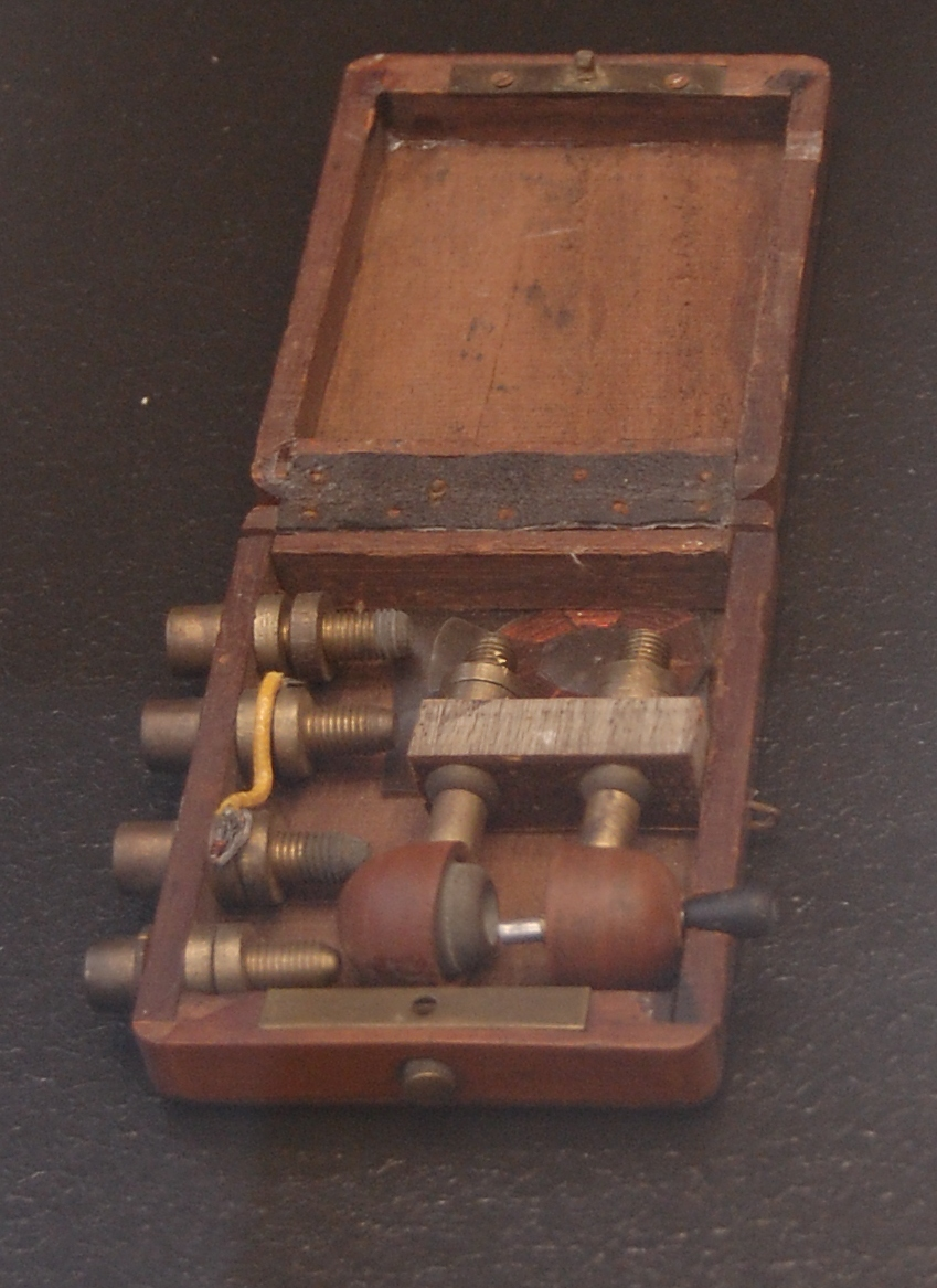 A galena radio receiver. Made in Greece, 1940.